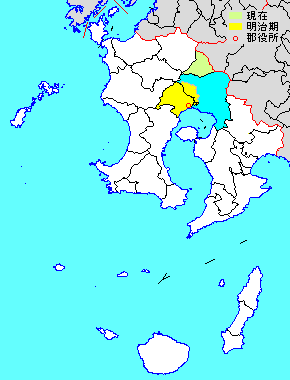 Location Map of Yusui in Kagoshima Prefecture, Japan